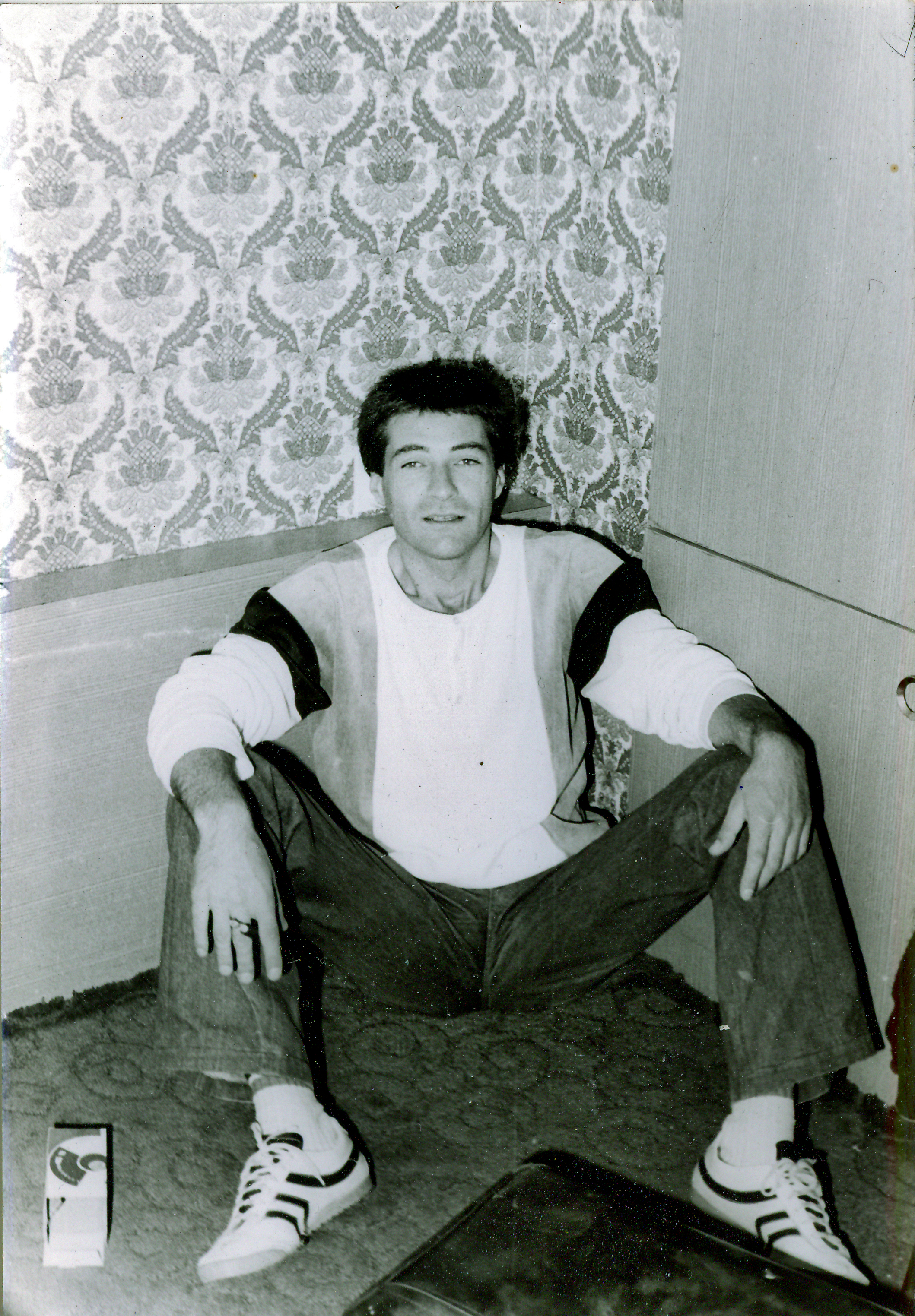 Serbian actor Mladen Nelević, around 1985